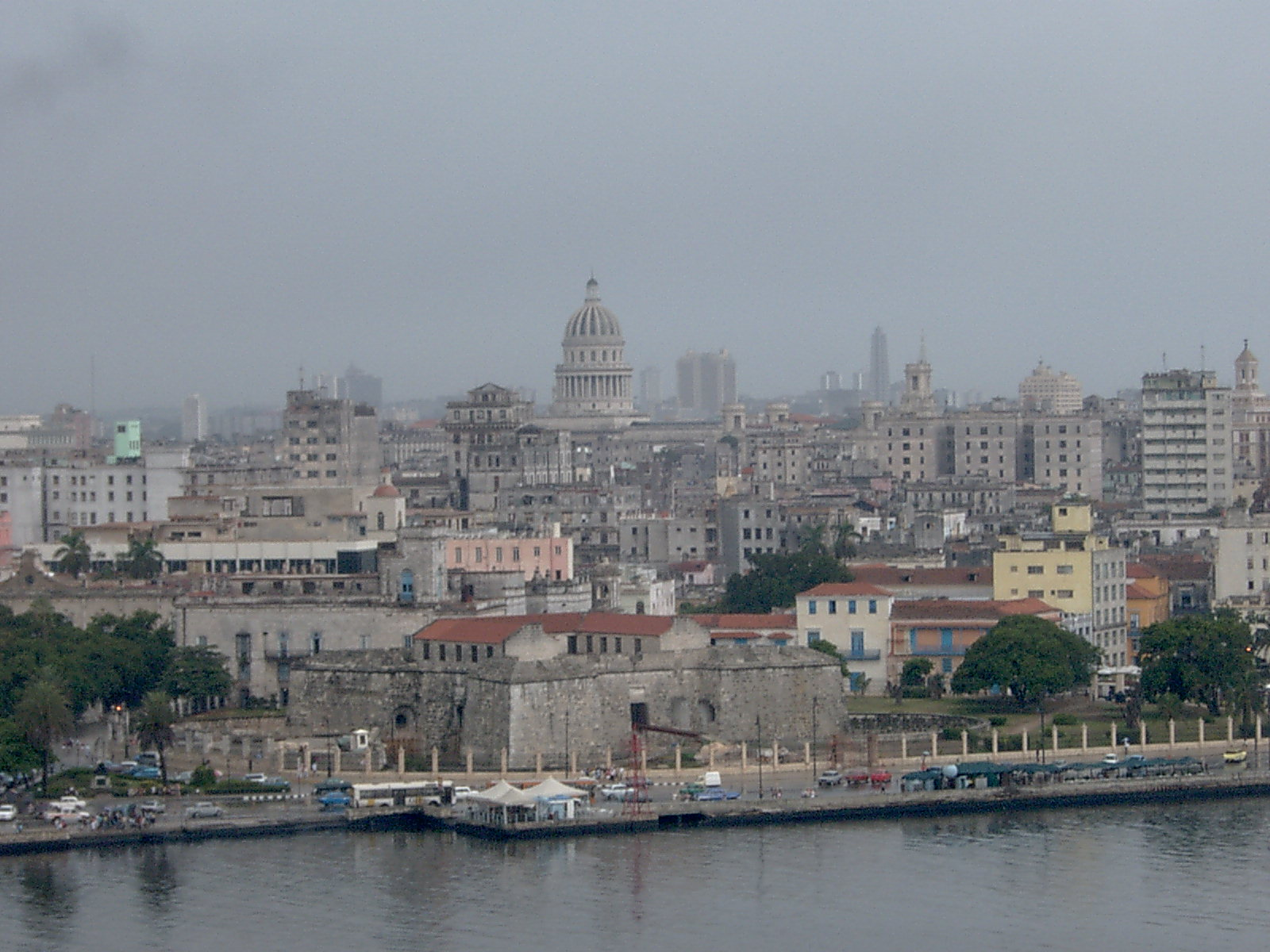 Castillo de la Fuerza in La Habana, seen from el East Havana